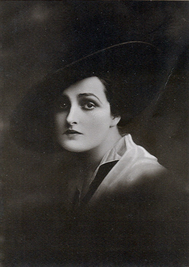 Postcard, undated. Title: "Fern Andra"